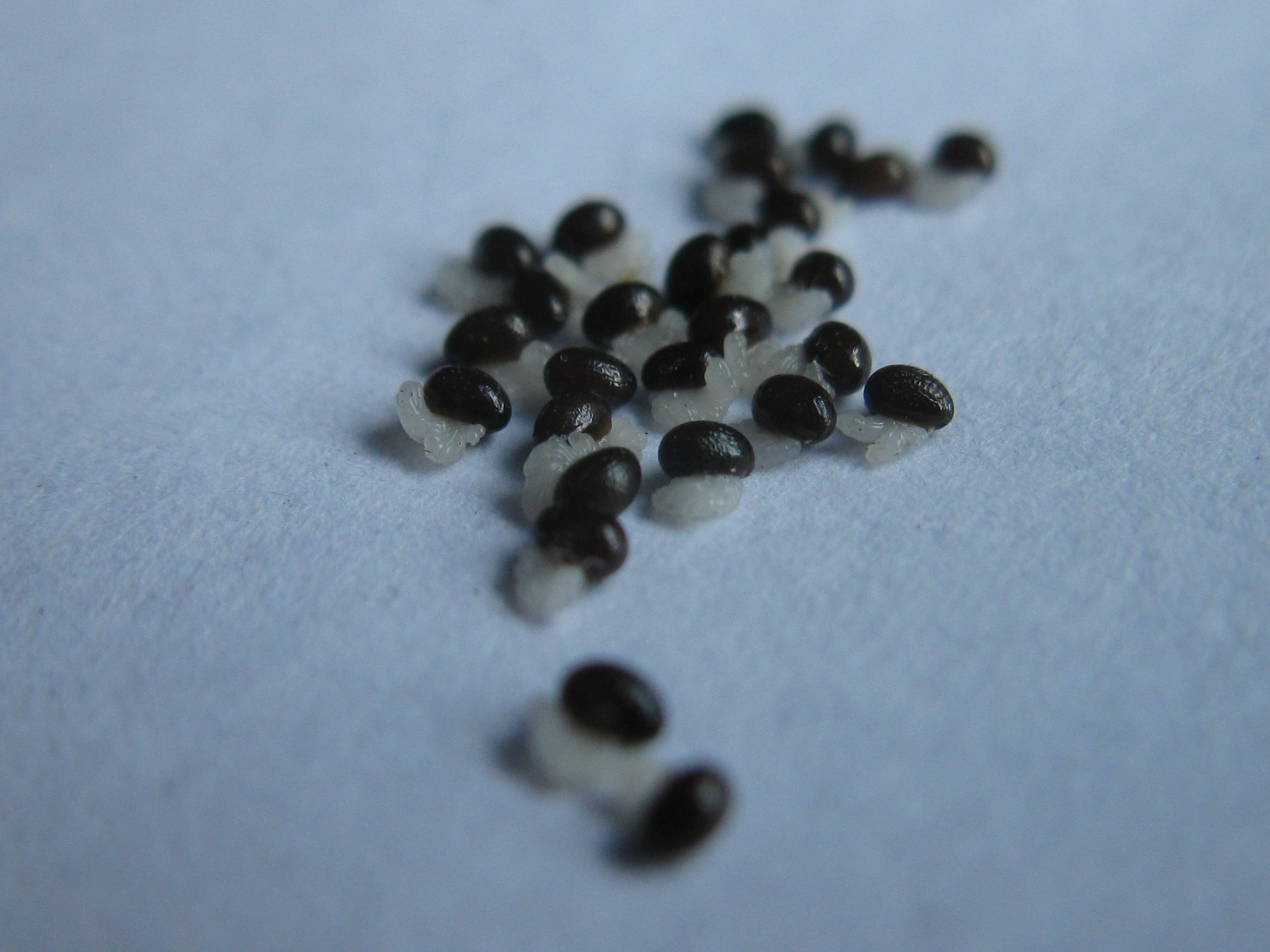 Double-flowered greater celandine (Chelidonium majus 'Flore Pleno') seeds with elaiosomes